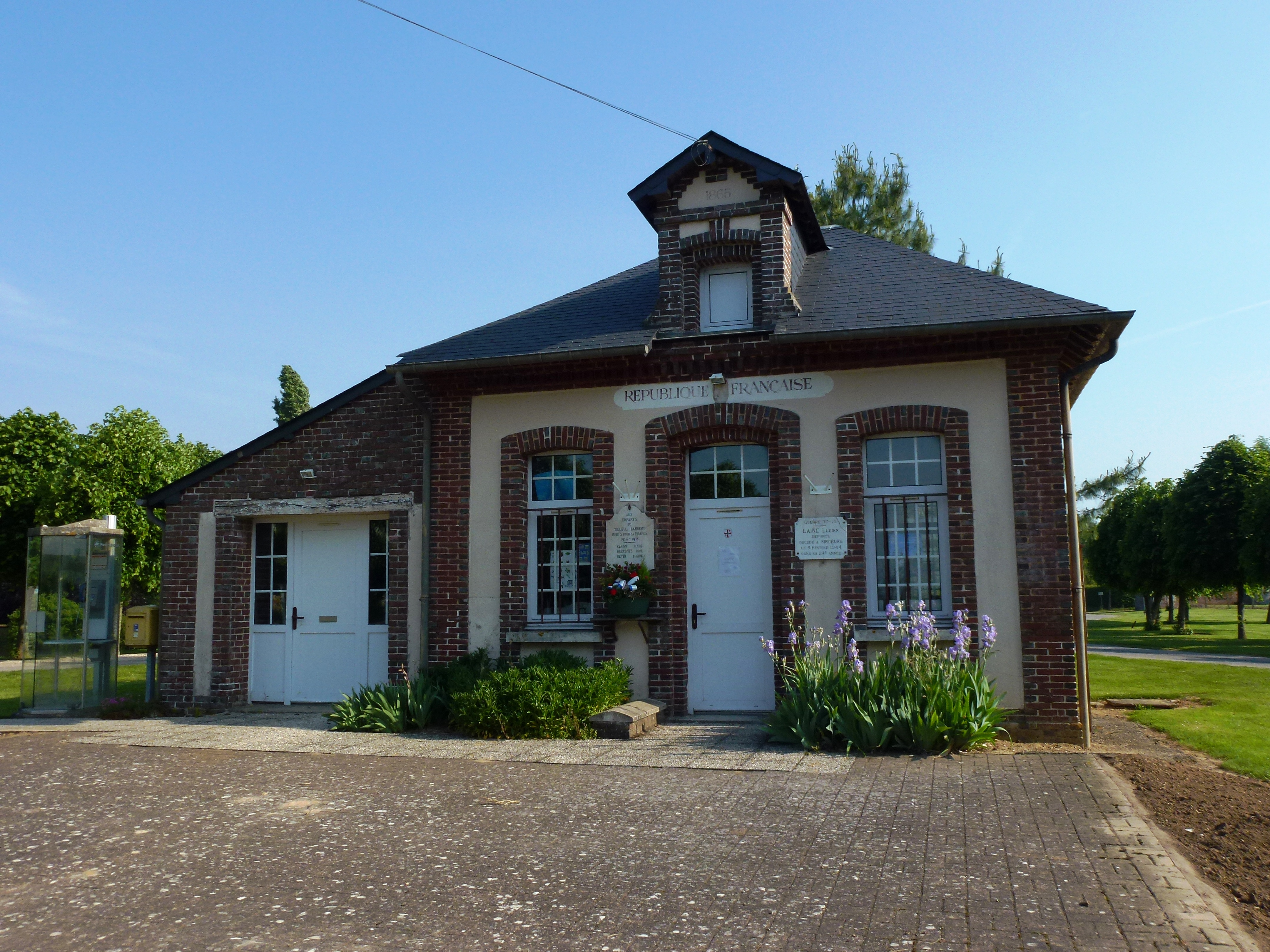 Le Tilleul-Lambert (Eure, Fr) mairie